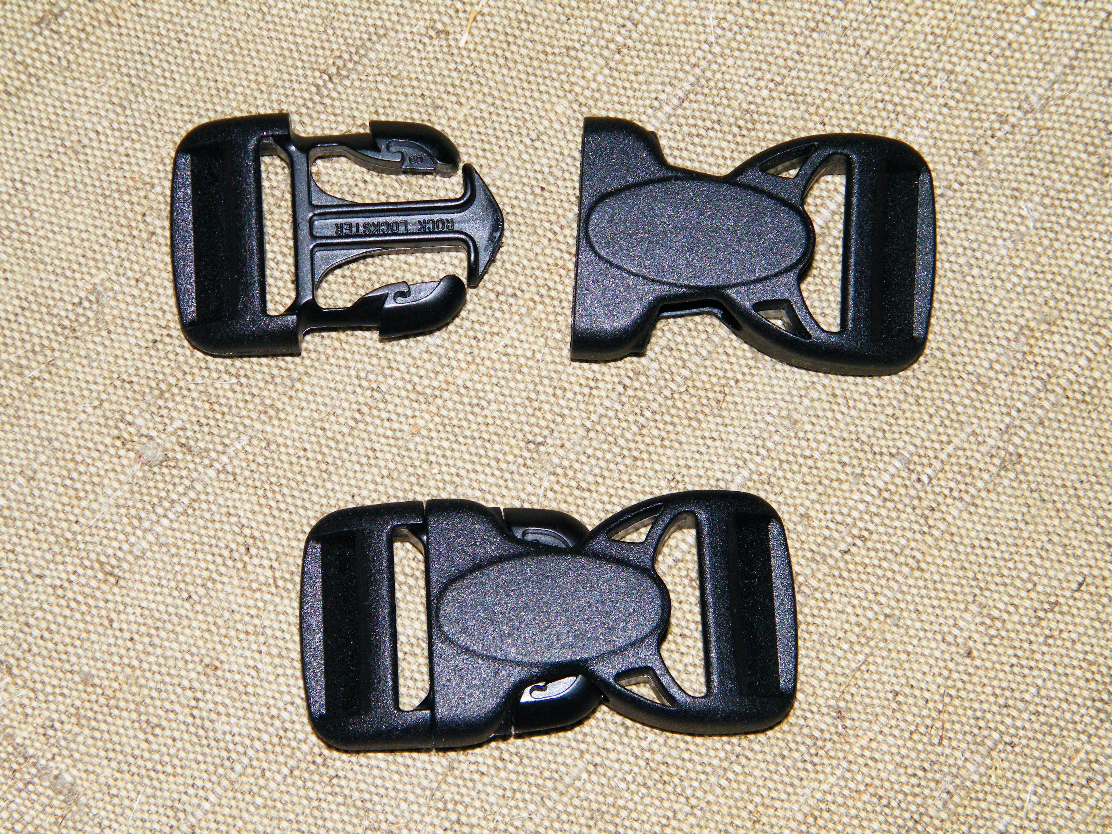 Fasteners